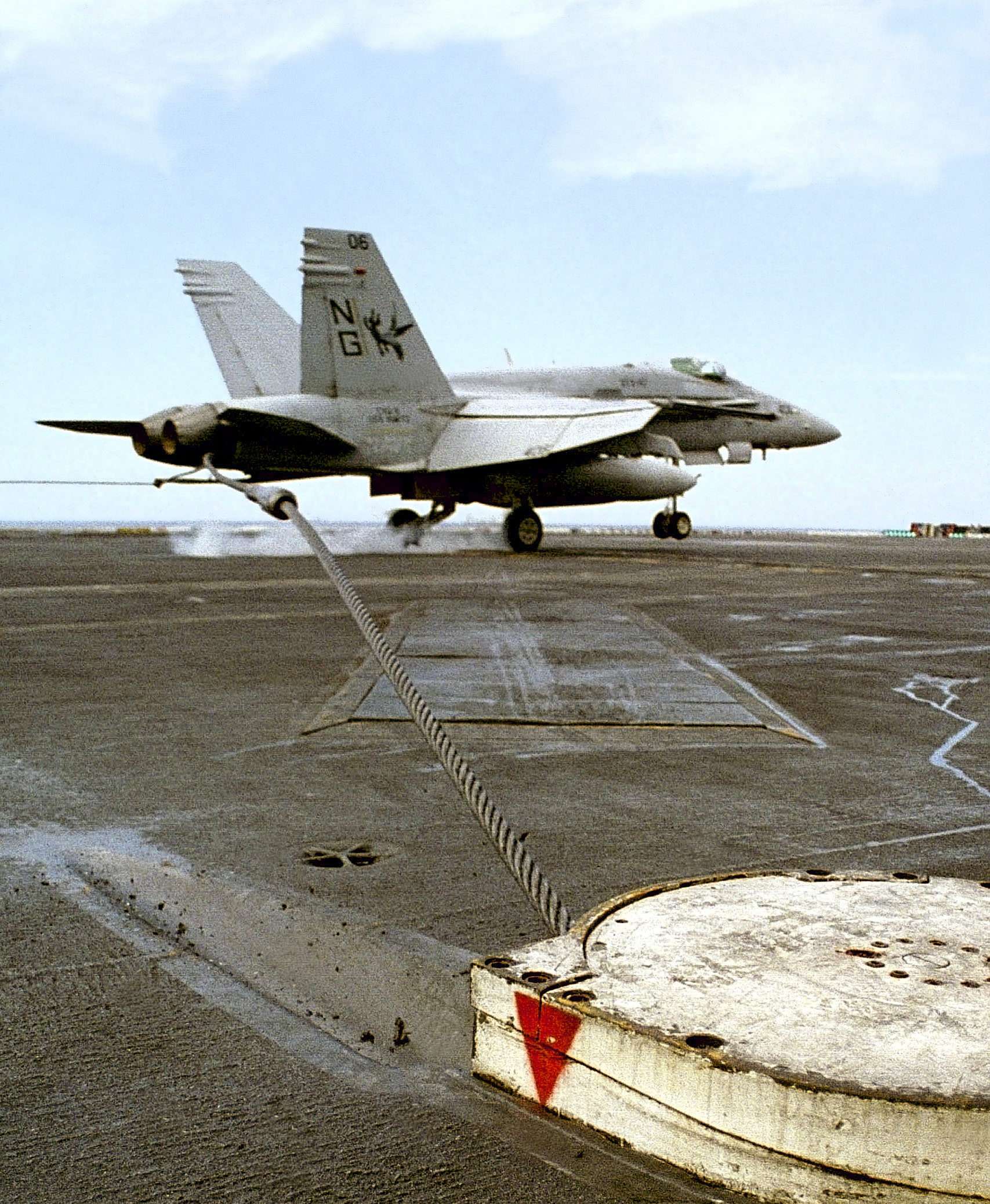 A US Navy F/A-18C Hornet assigned to Strike Fighter Squadron One Four Seven (VFA-147) catches the arresting gear wire, while landing on board the nuclear powered aircraft carrier USS NIMITZ (CVN 68). VFA-147 is part of Carrier Air Wing Nine (CVW-9) embarked on Nimitz. The Nimitz and her air wing are currently on a scheduled deployment in support of UN sanctions, enforcing the southern No-Fly Zone over Iraq. Operation Southern Watch, Persian Gulf.